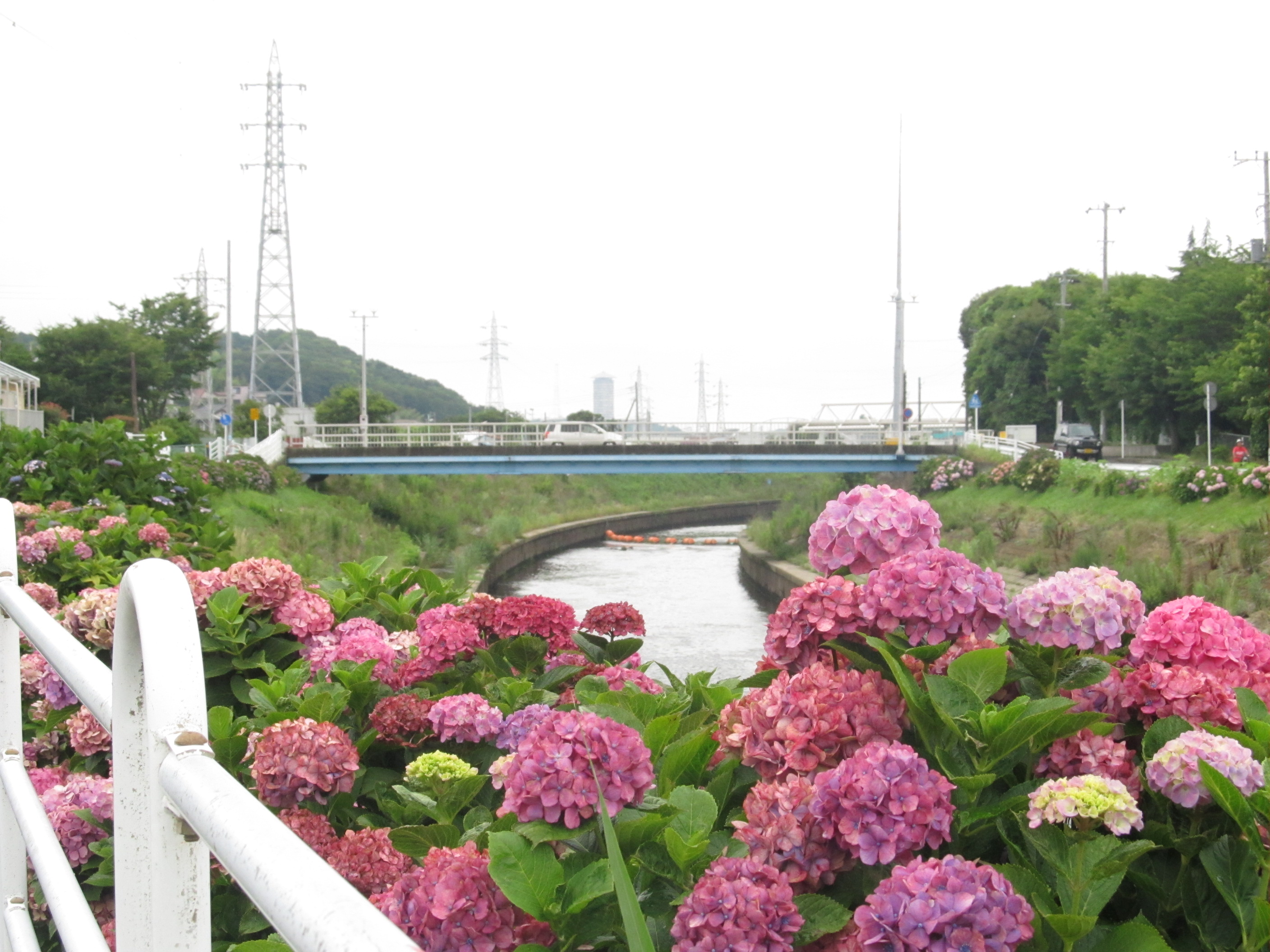 Ōshimizu Sakai River Hydrangea Road in Fujisawa City, Kanagawa Prefecture, Japan